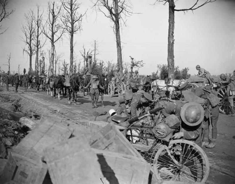 Men of the 36th Divisional Cyclist Company and a pack ammunition section heading towards Gheluvelt pass French transport limbers on the Menin Road, 29 September 1918